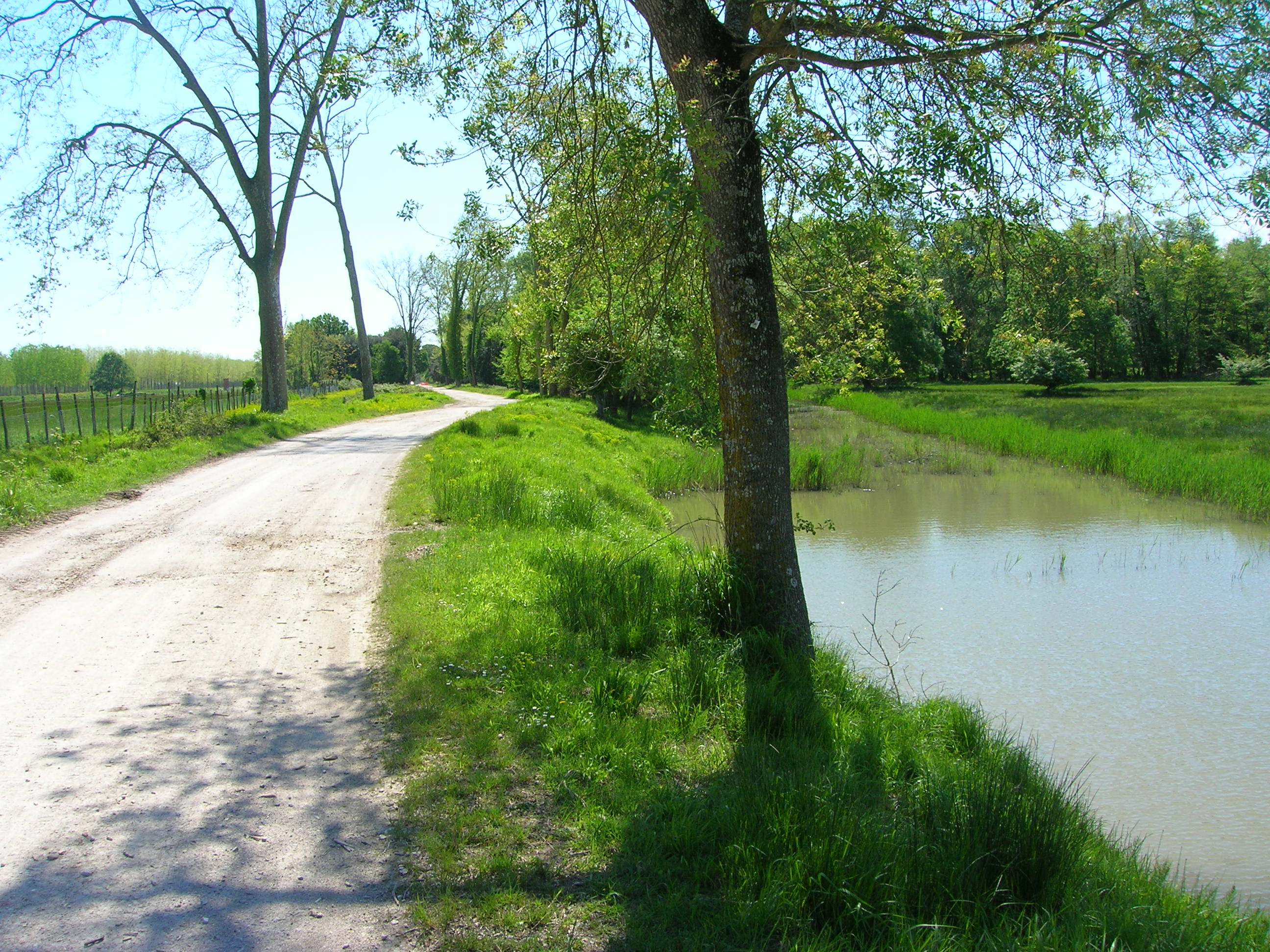 Park of San Rossore, Pisa, Tuscany, Italy